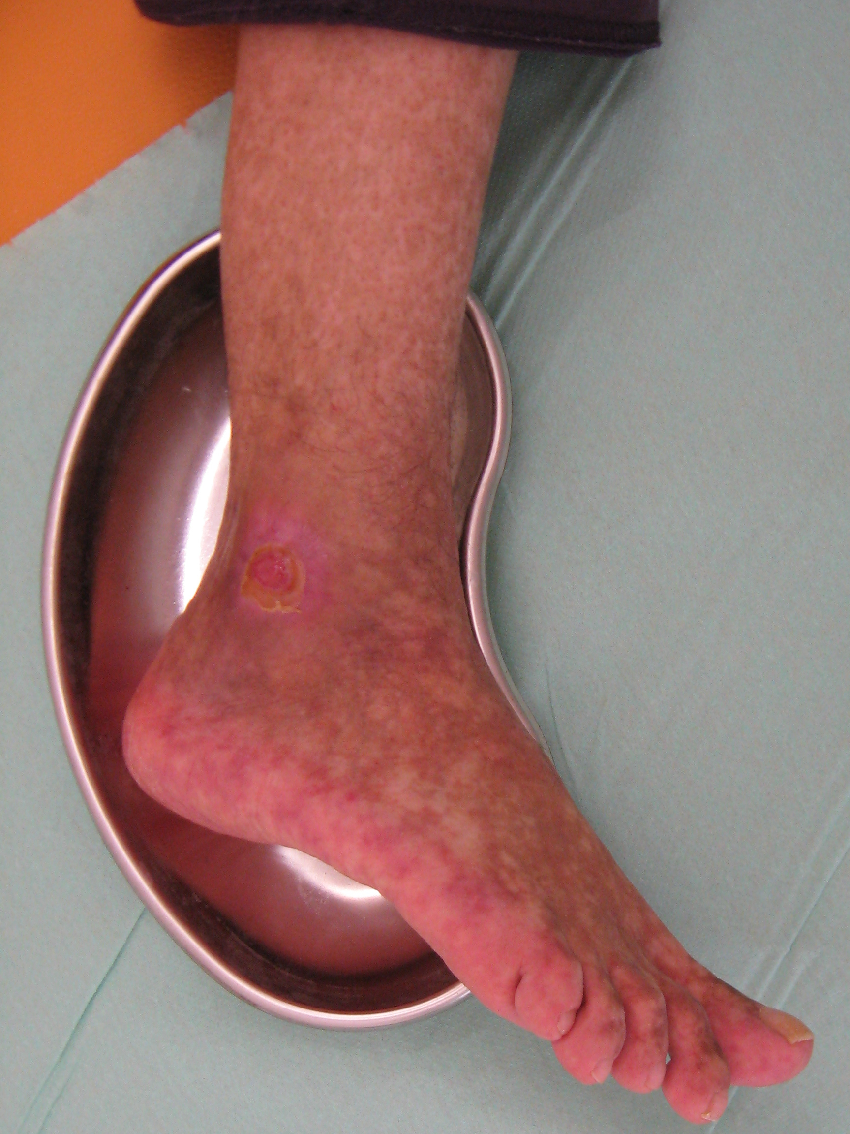 Hyperpigmented_areas_of_the_skin_in_vasculitis